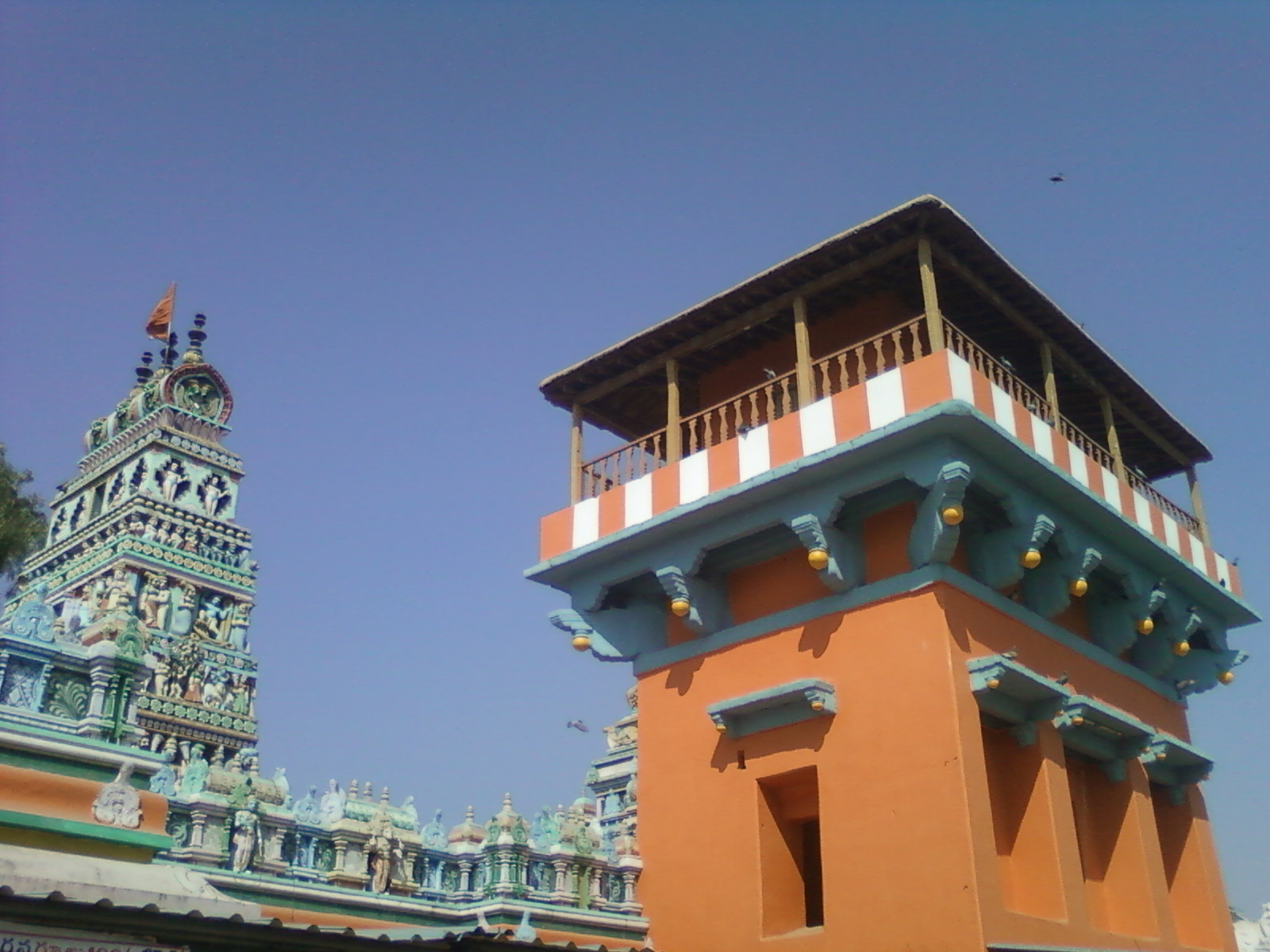 Karmanghat Hanuman Temple, Hyderabad